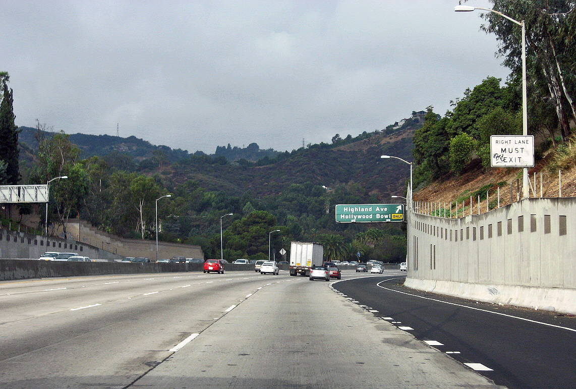 U.S. Route 101 northbound, just south of the exit to Highland Avenue and the Hollywood Bowl, in Los Angeles, California.